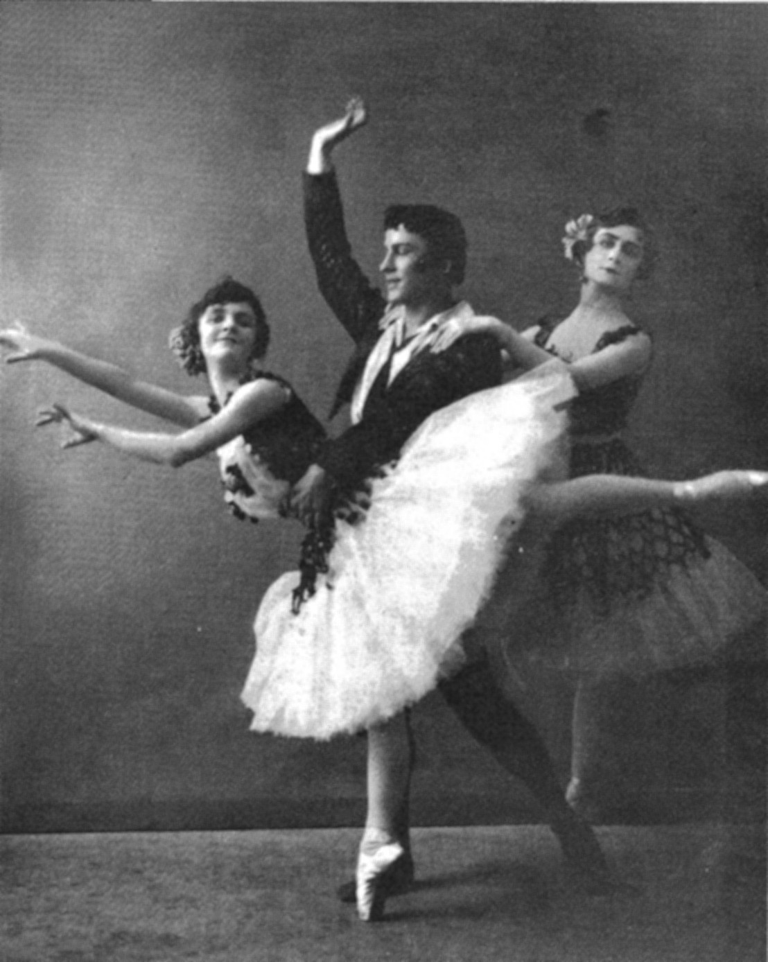 Photo taken by an unknown photographer at the Mariinsky Theatre, St. Peterbsurg, Russia of the dancers Elizaveta Gerdt, Elsa Vill, and Pierre Vladimirov in the "Paquita" Pas de Trois, 1905. Photo comes from my own collection and was scanned by me. Mrlopez2681 01:29, 10 August 2006 (UTC)